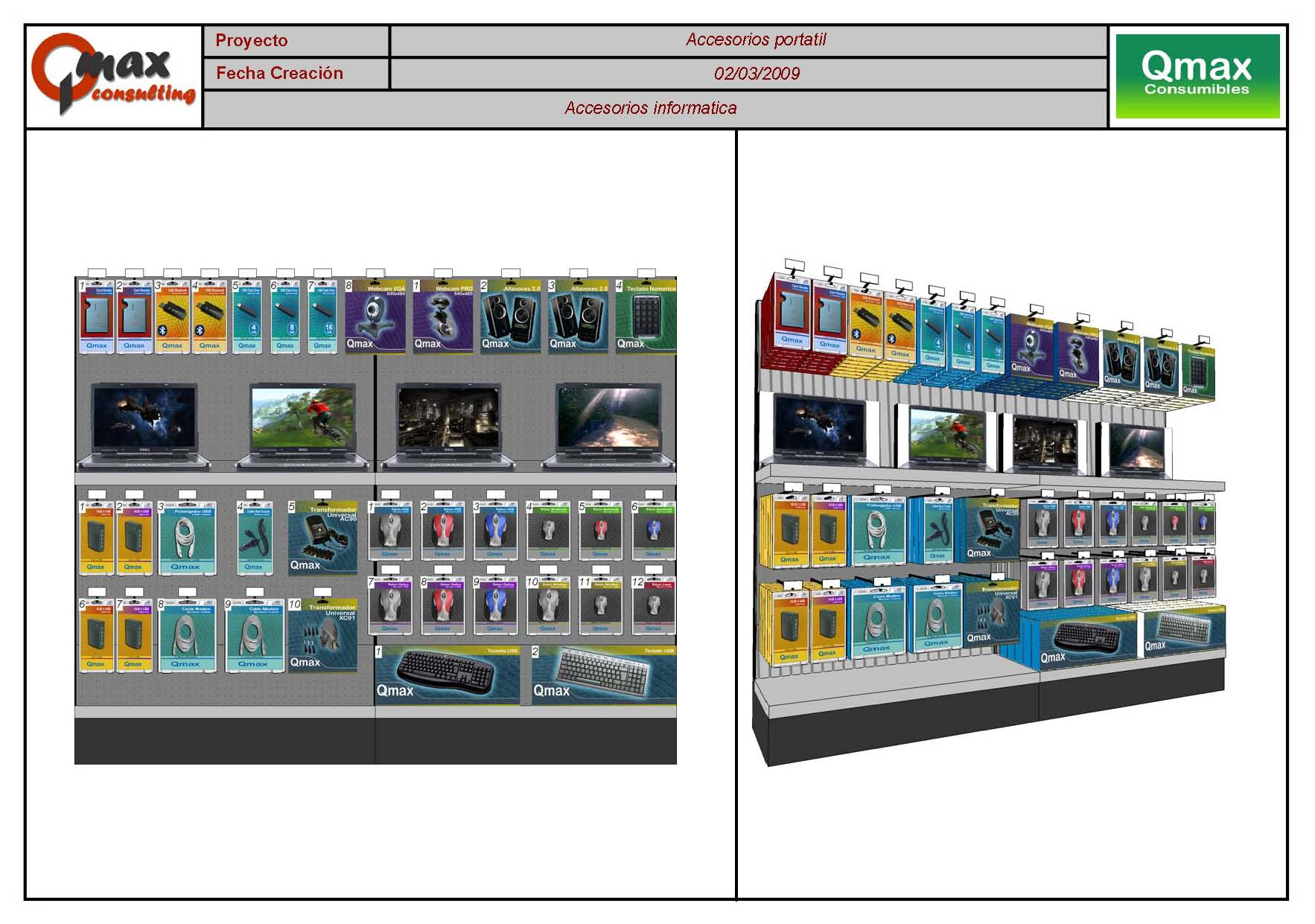 Planogram Example